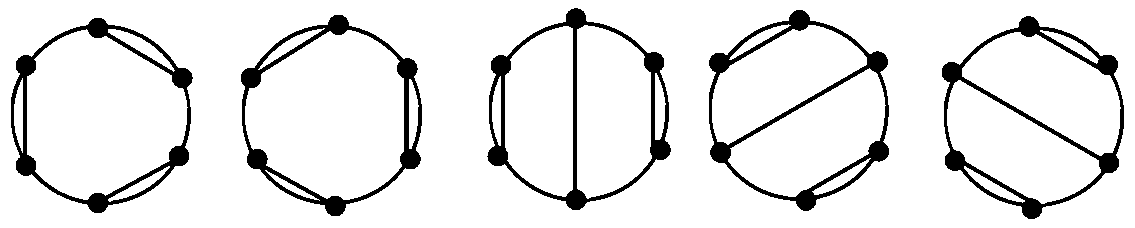 Rumer's diagrams containing 3 shared electron pairs for benzene π-system